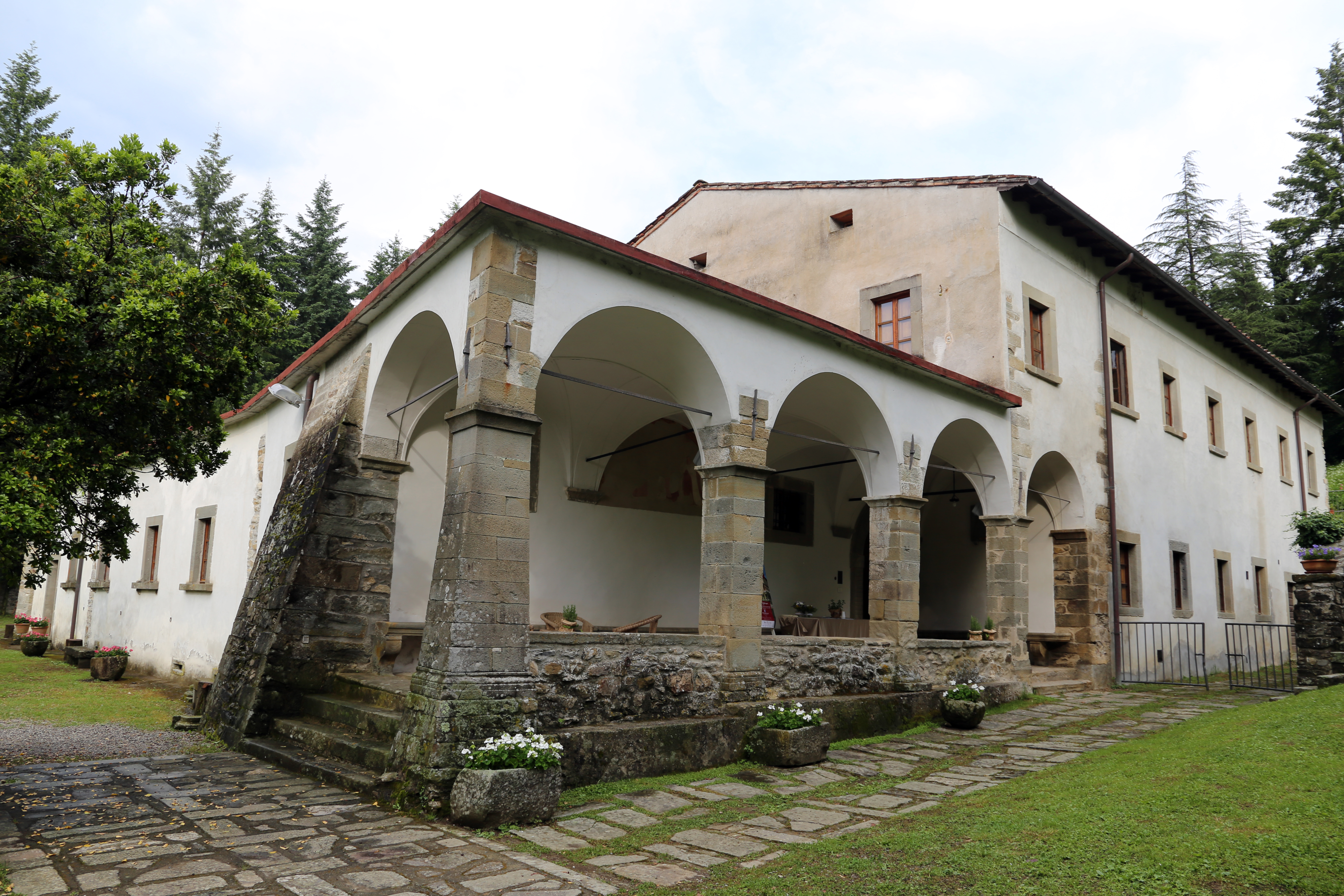 Ex Convento del Carmine (Fivizzano)